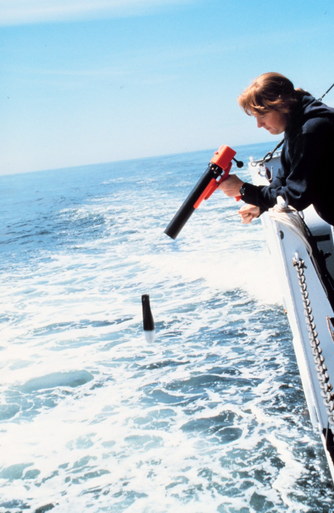 A photo of a woman launching an expendable bathythermograph (XBT) instrument into the ocean via a handheld launcher onboard the MCARTHUR.